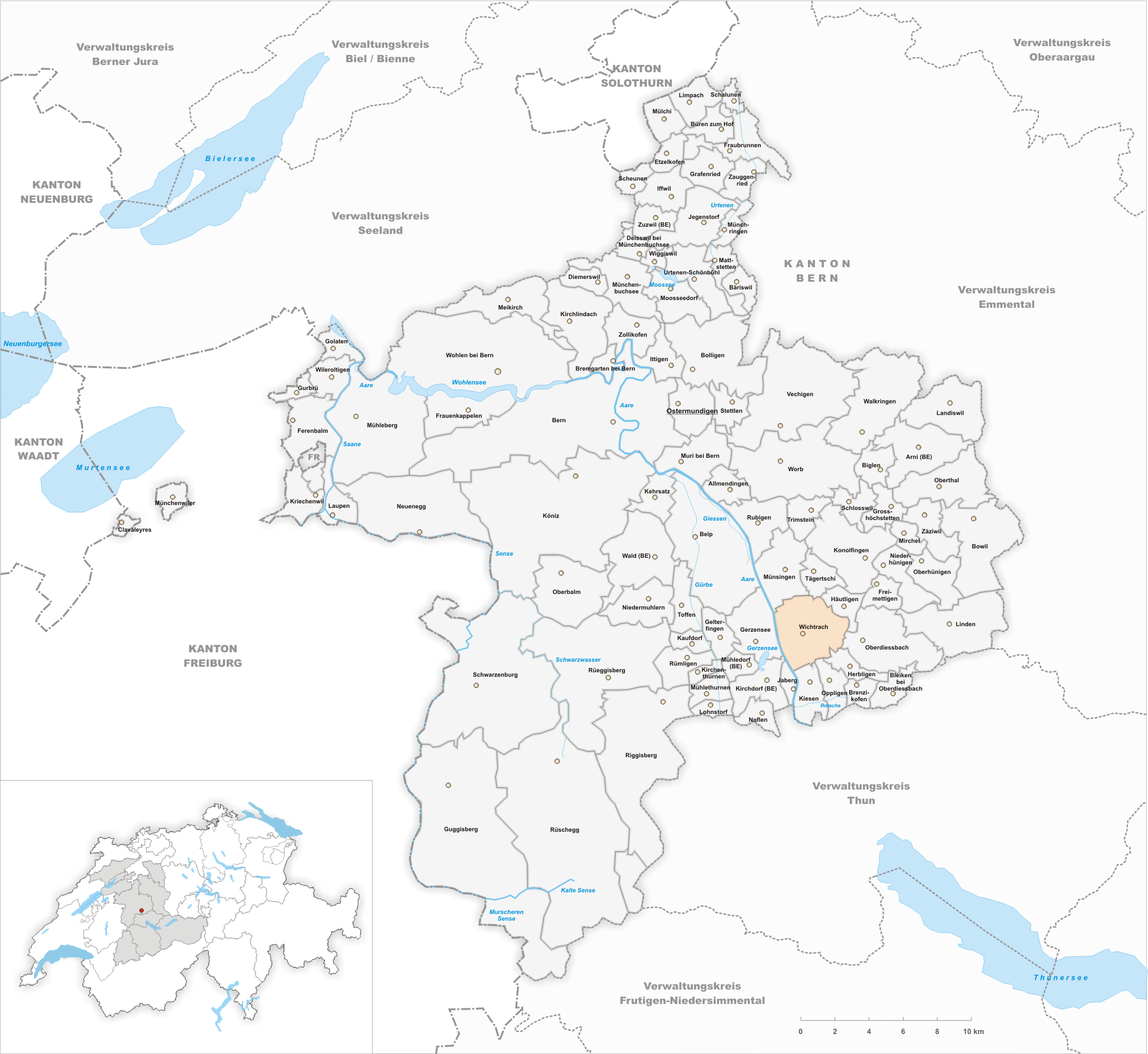 Municipality Wichtrach